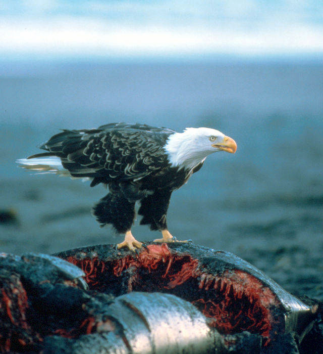 Bald Eagle (Haliaeetus leucocephalus) on Whale Carcass